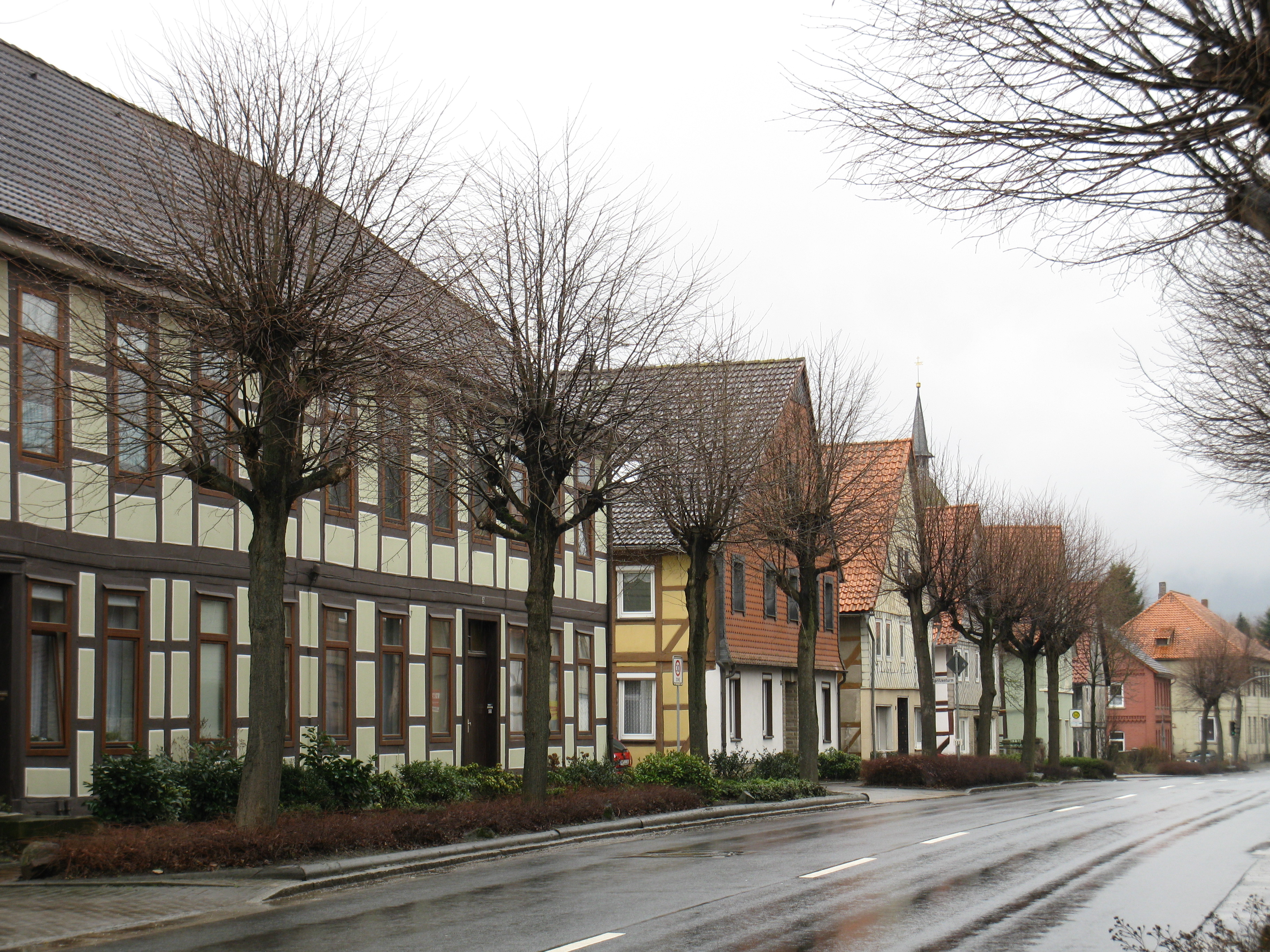 Salzhemmendorf-Hemmendorf, Germany